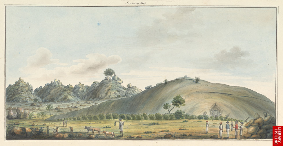 General view of cave temples in the Barabar Mounts, (Bihar).